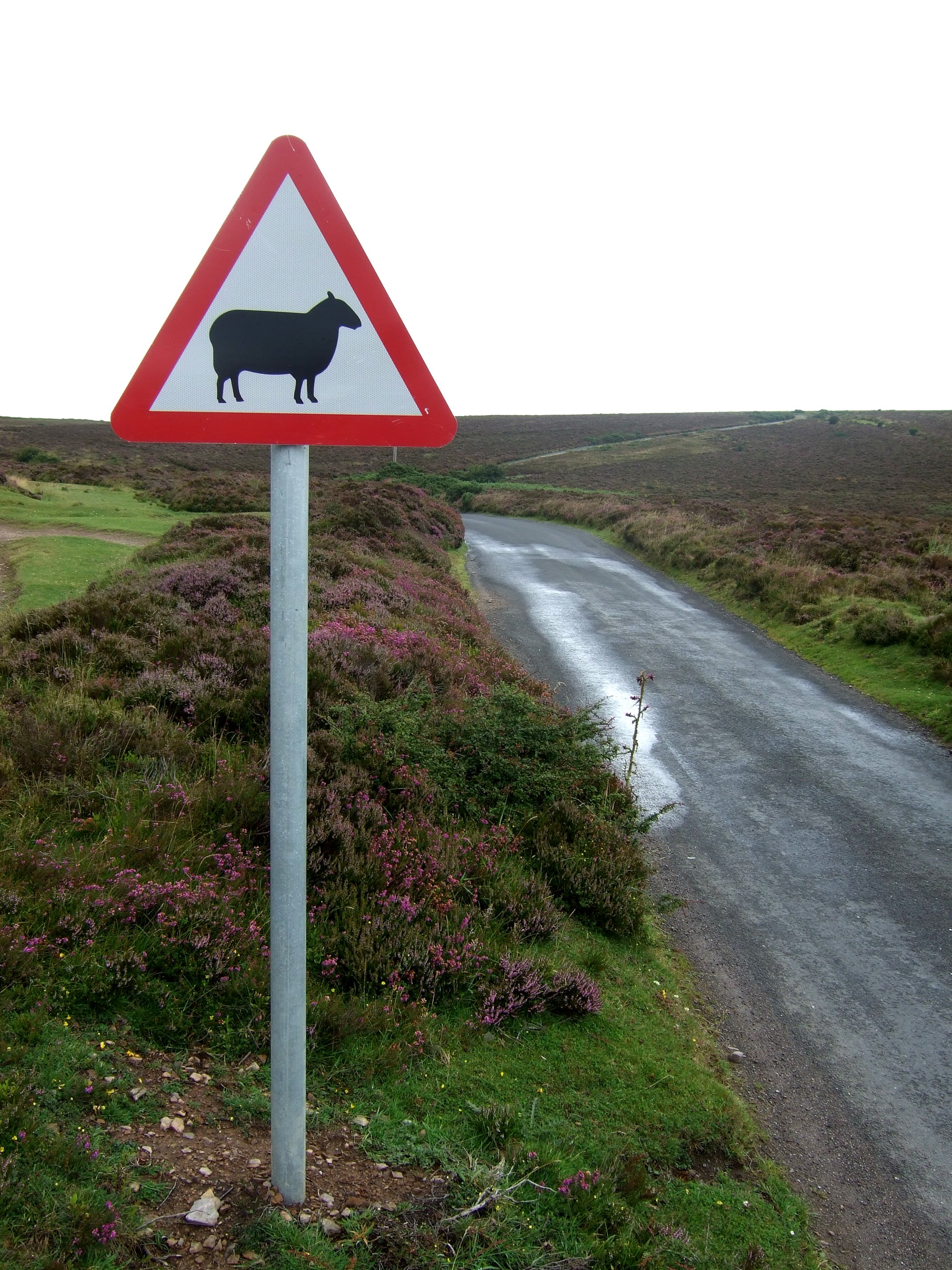 A "sheep crossing" sign in England.